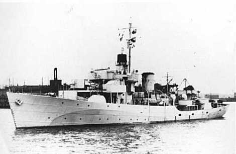 Revised Flower-class corvette HMCS Mimico